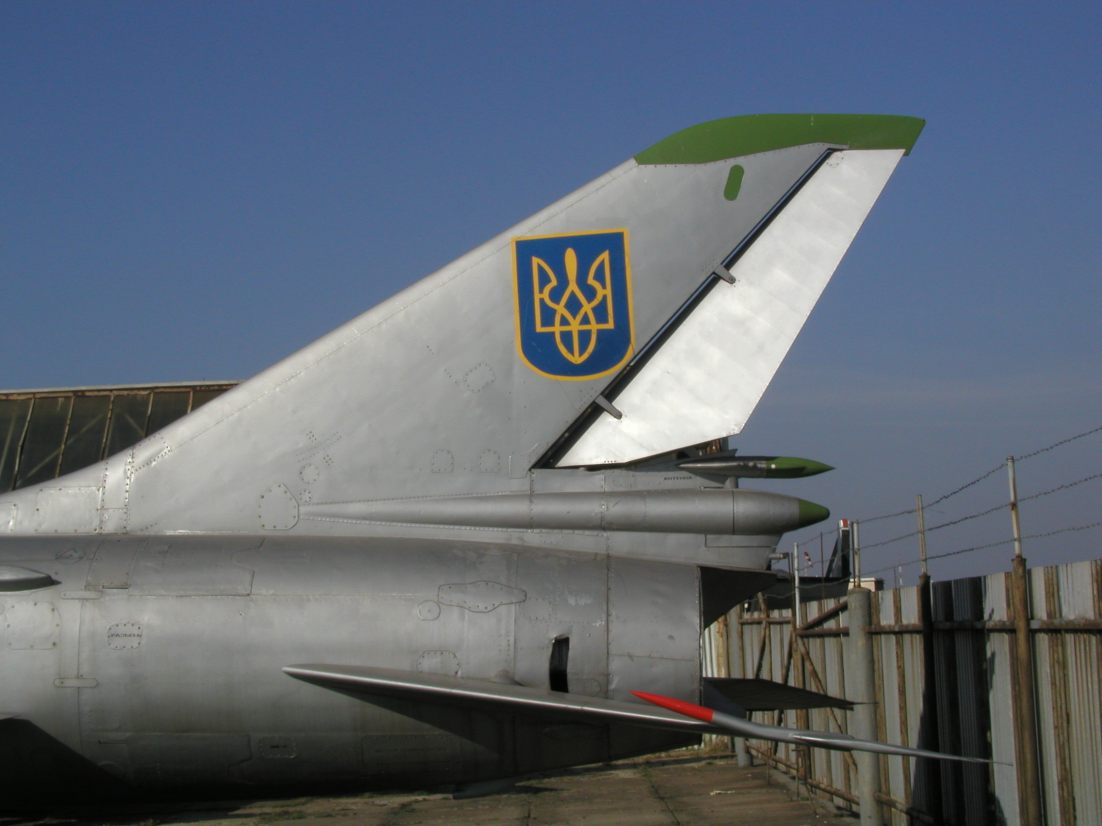 Tail of a former Ukrainian Sukhoi Su-15TM fighter (in the Museum of Aviation is Kosice, Slovakia)